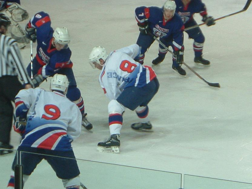 Arnaud Briand french ice hockey player. Euro Ice Hockey Challenge, 2003, Briançon, France.